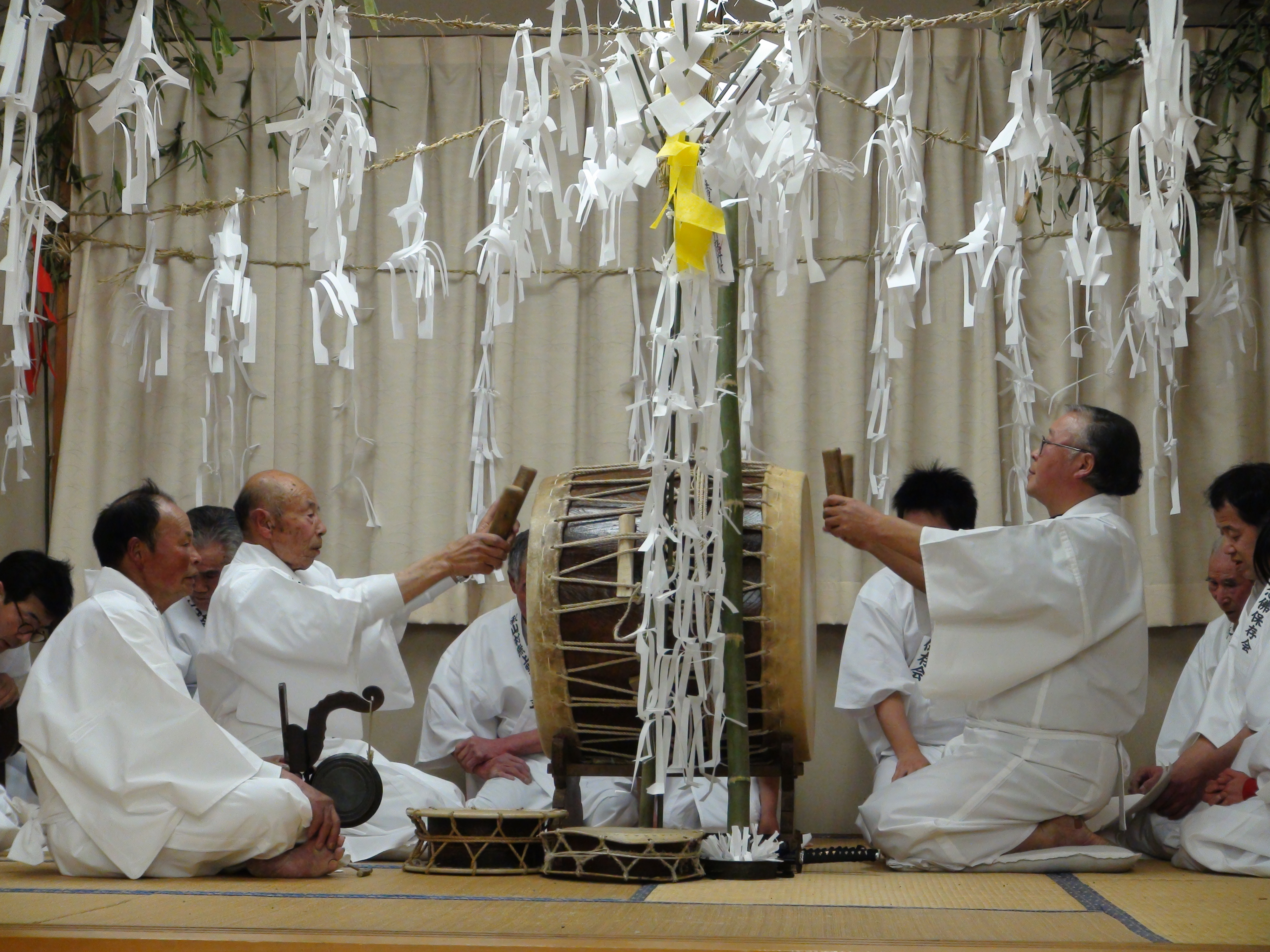 Mushono-Dainembutsu dance (a dance with an invocation to the Buddha)